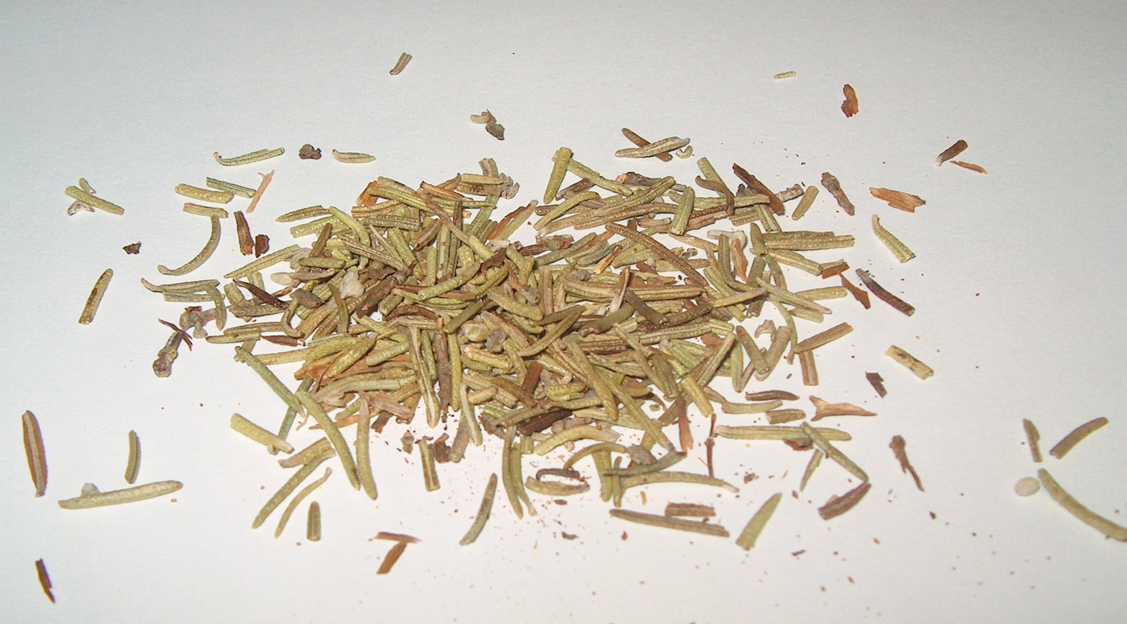 Rosemary